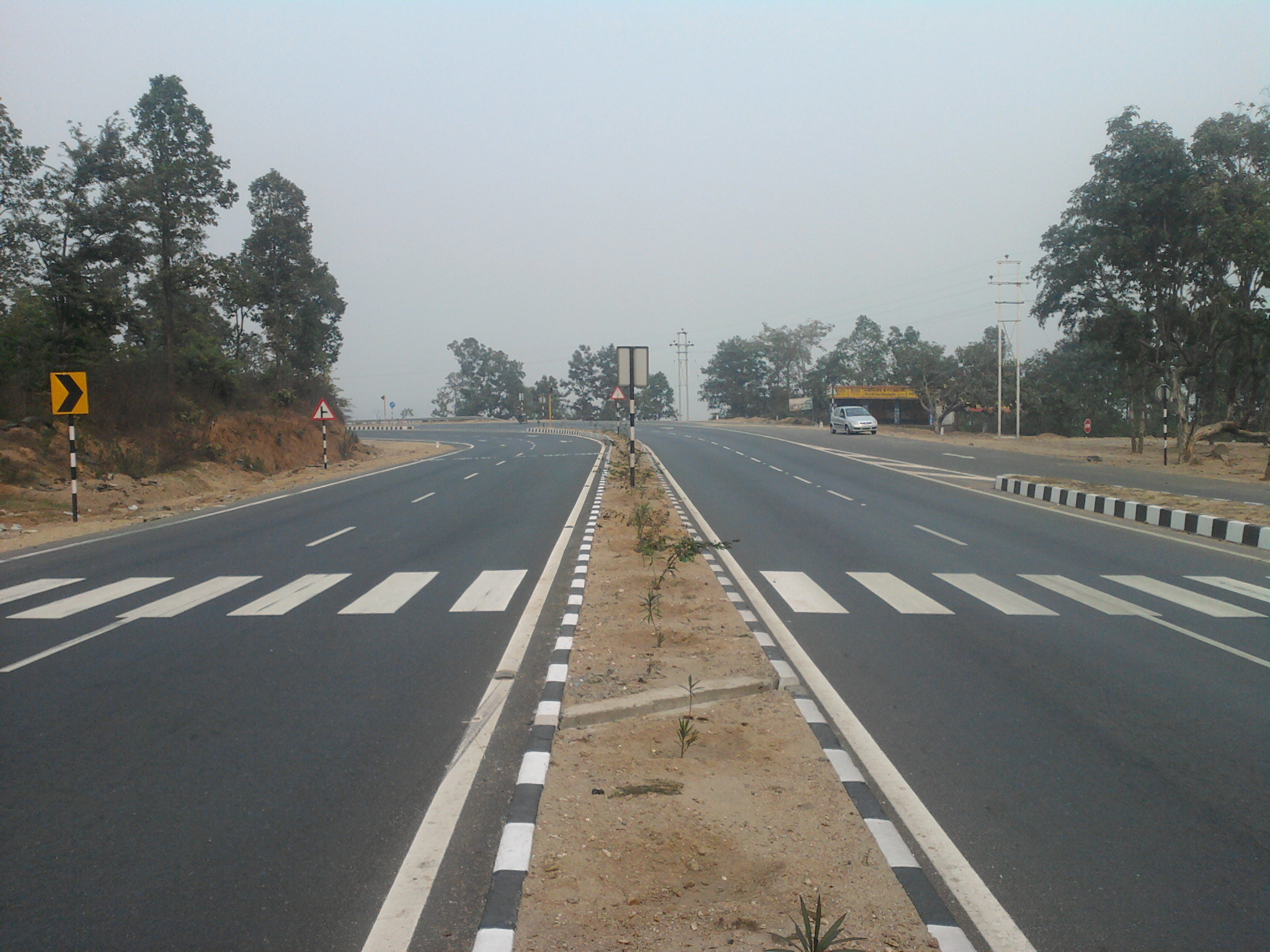 NH 33 Between Ramgarh and Chutupallu